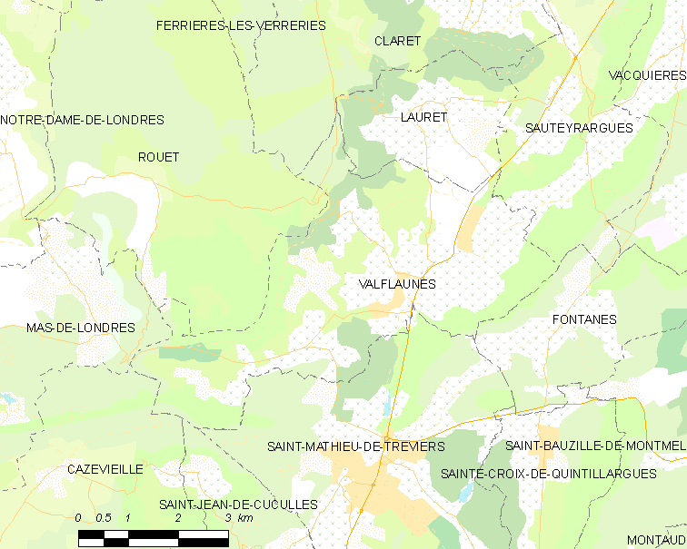 Map commune FR insee code 34322.png - Valflaunès